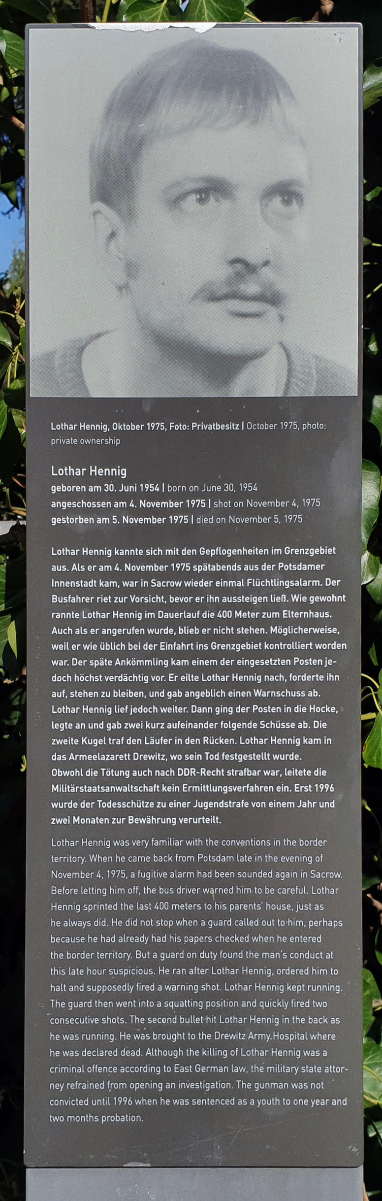 Memorial plaque, Lothar Hennig, Kladower Straße 1, Potsdam, Deutschland